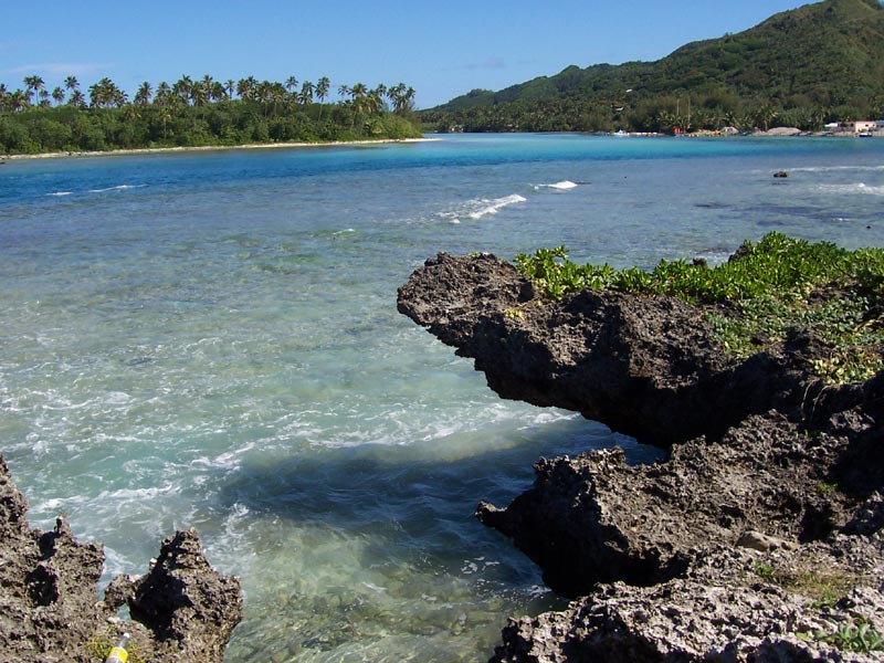 Photo taken from Rarotonga, Cook Islands. Released under GFDL.